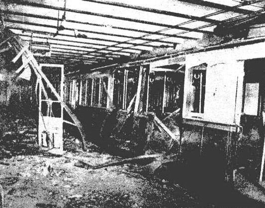 Metro damages after terrorist attack against trade union rally. Plaza de Mayo, Buenos Aires, Argentina, 15th April 1953.